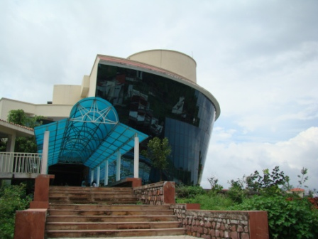 An image of The National Law Institute University, Bhopal's Gyan Mandir